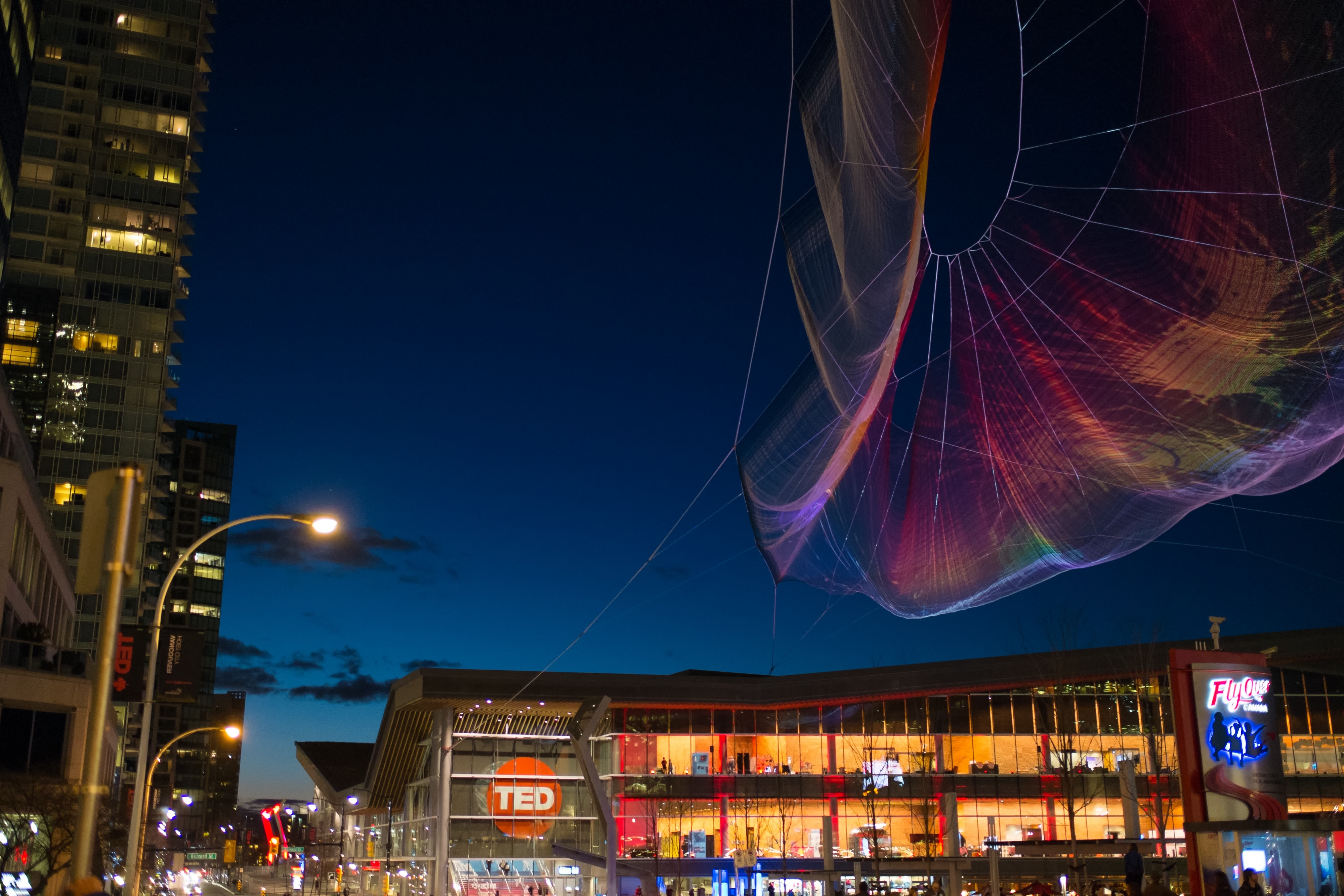 Skies Painted with Unumbered Sparks